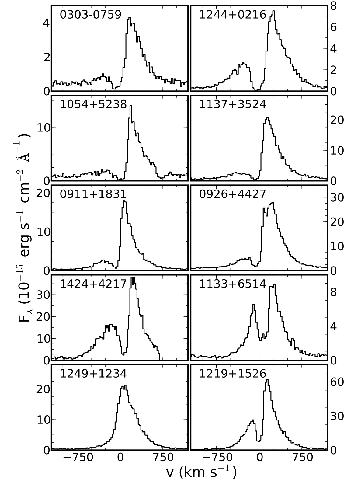 Hubble Space Telescope Cosmic Origins Spectrograph Observations of Green Peas show strong, yet resonantly processed Lyman Alpha Emission.